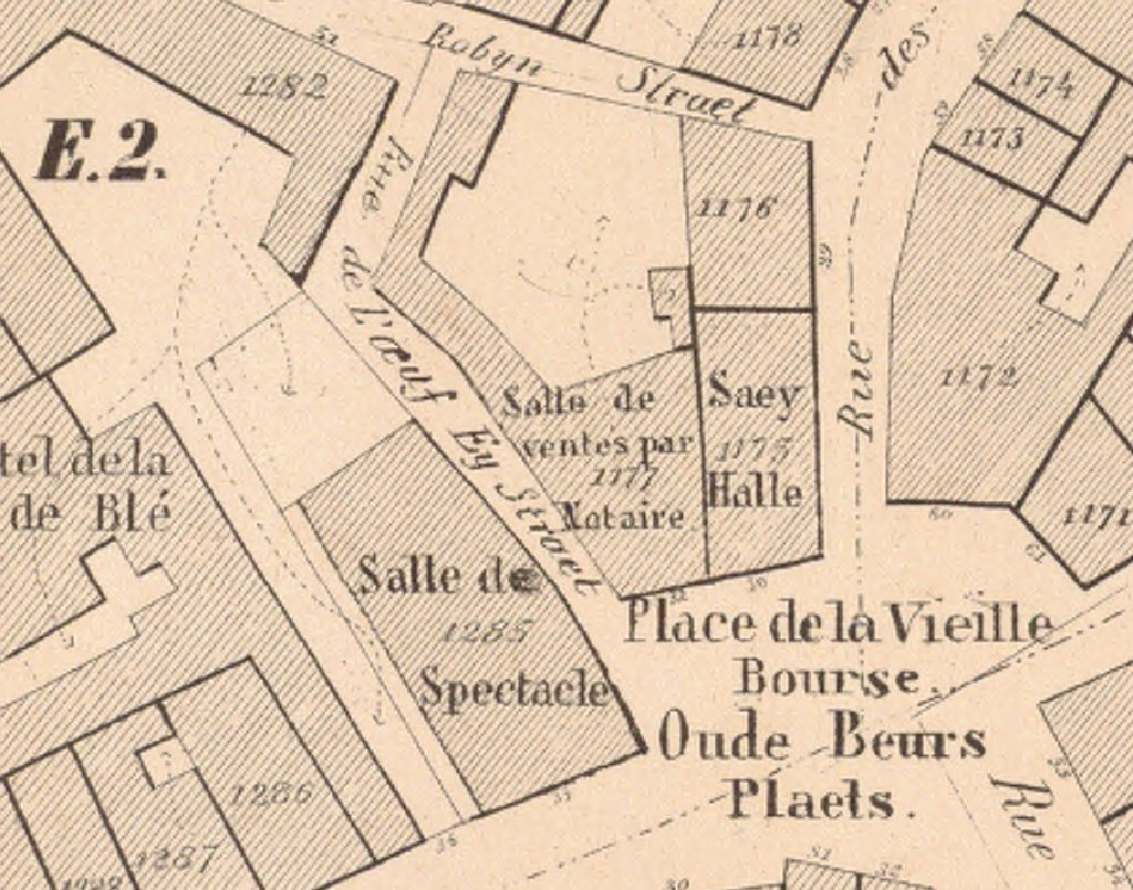 Oud Beursplein, brugge op Plan Popp